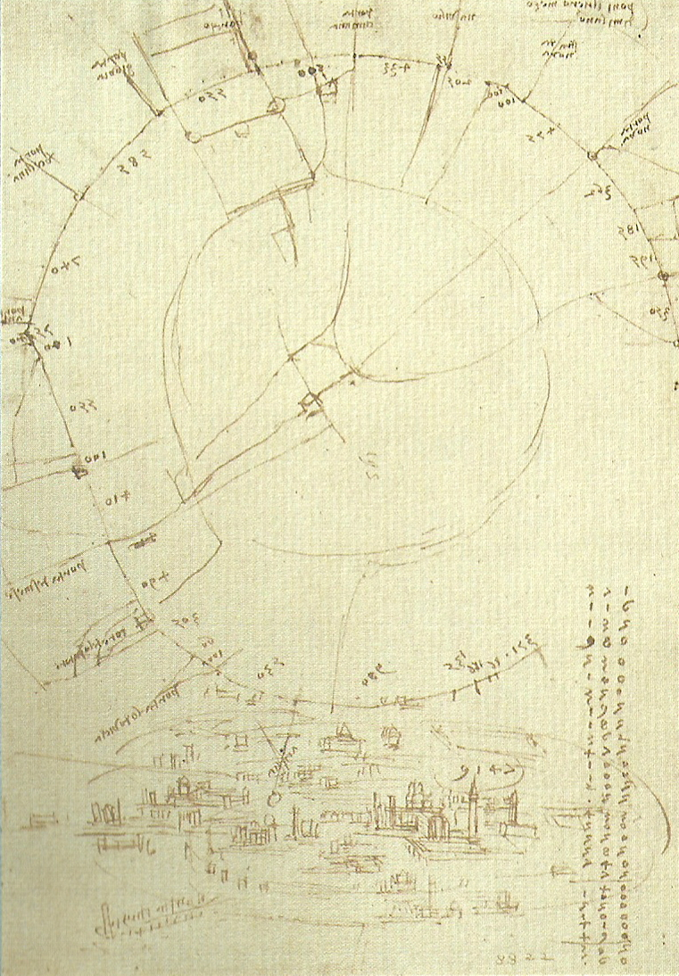 Milano by Leonardo, map and perspective Codice Atlantico, f. 199 v. Milano Biblioteca Ambrosiana